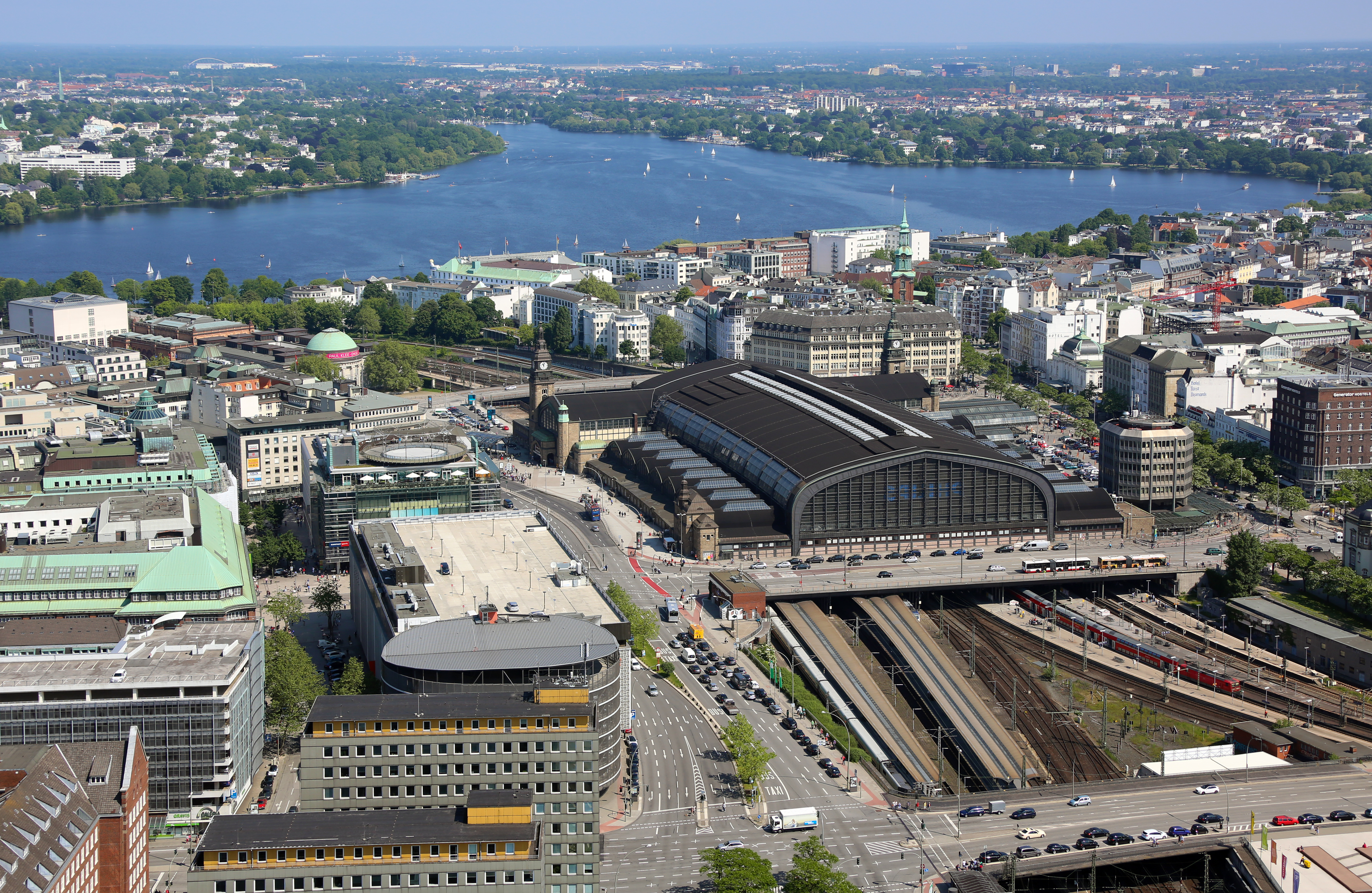 Aerial view of Hamburg-Mitte with the Hamburg Hauptbahnhof (main railway station for the German city of Hamburg) and lake Außenalster.